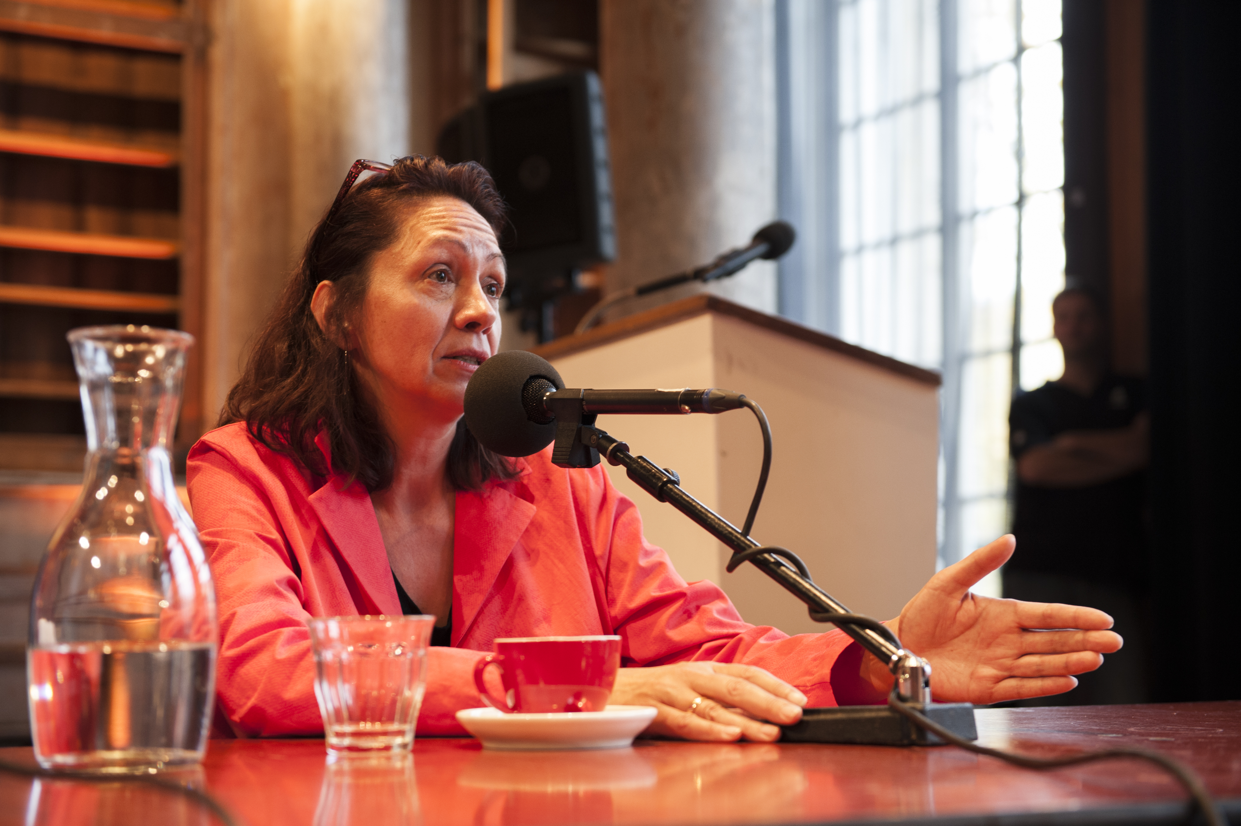 Belgian writer Elisabeth Leijnse, Oct. 2016